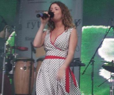 Erica Jennings, pop singer of Skamp, Lithuania